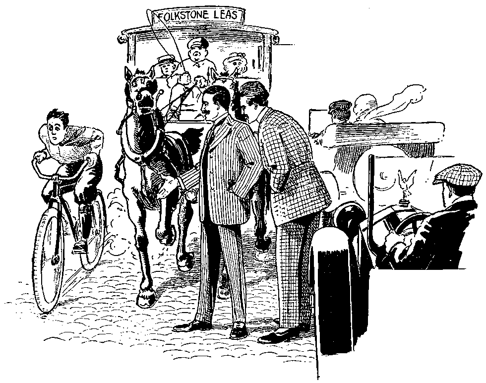 Opening illustration for the story The New Accelerator by H. G. Wells from the first issue (April 1926) of the pulp magazine Amazing Stories.